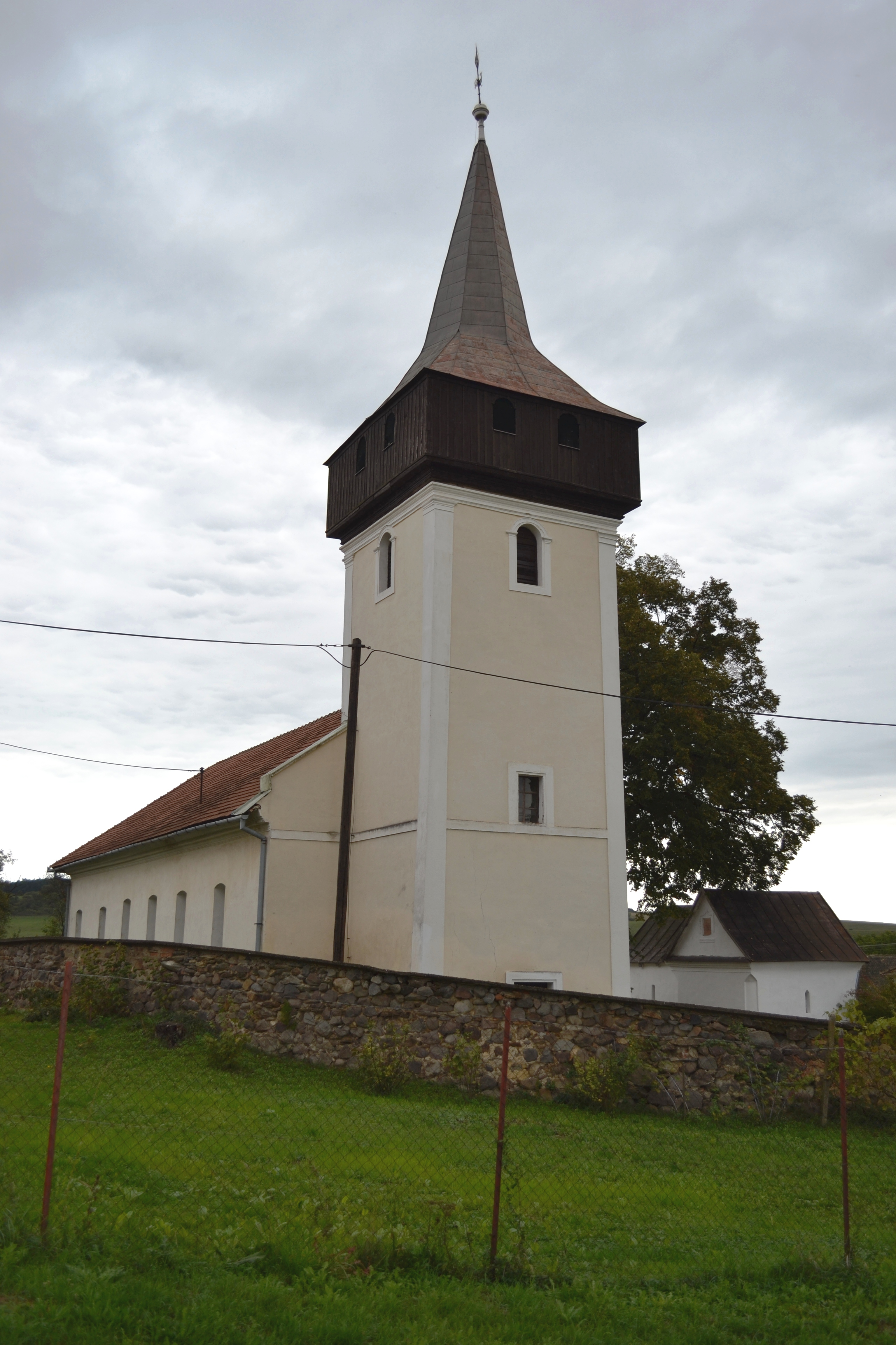 Cultural monument of the village Hrnčiarska Ves is a renaissance evangelical church from 1630Slovenčina: Kultúrnou pamiatkou obce Hrnčiarska Ves je renesančný evanjelický kostol z roku 1630